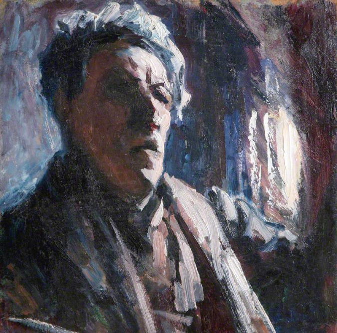 Self portrait oil on panel 36.2 x 37 cm c. 1923–1926